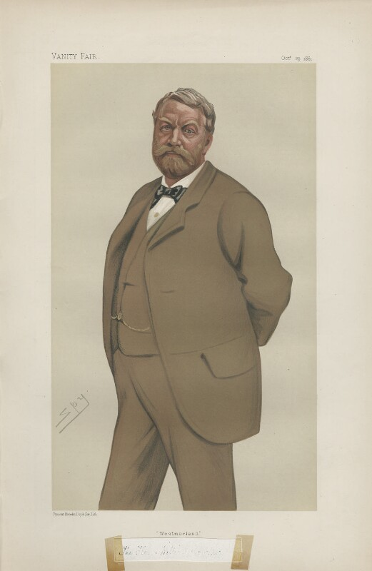 Caricature of William Lowther MP. Caption read "Westmorland".